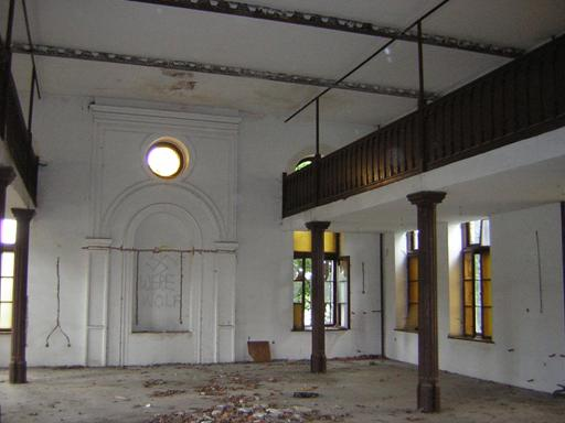 Synagogue in Dzierżoniów